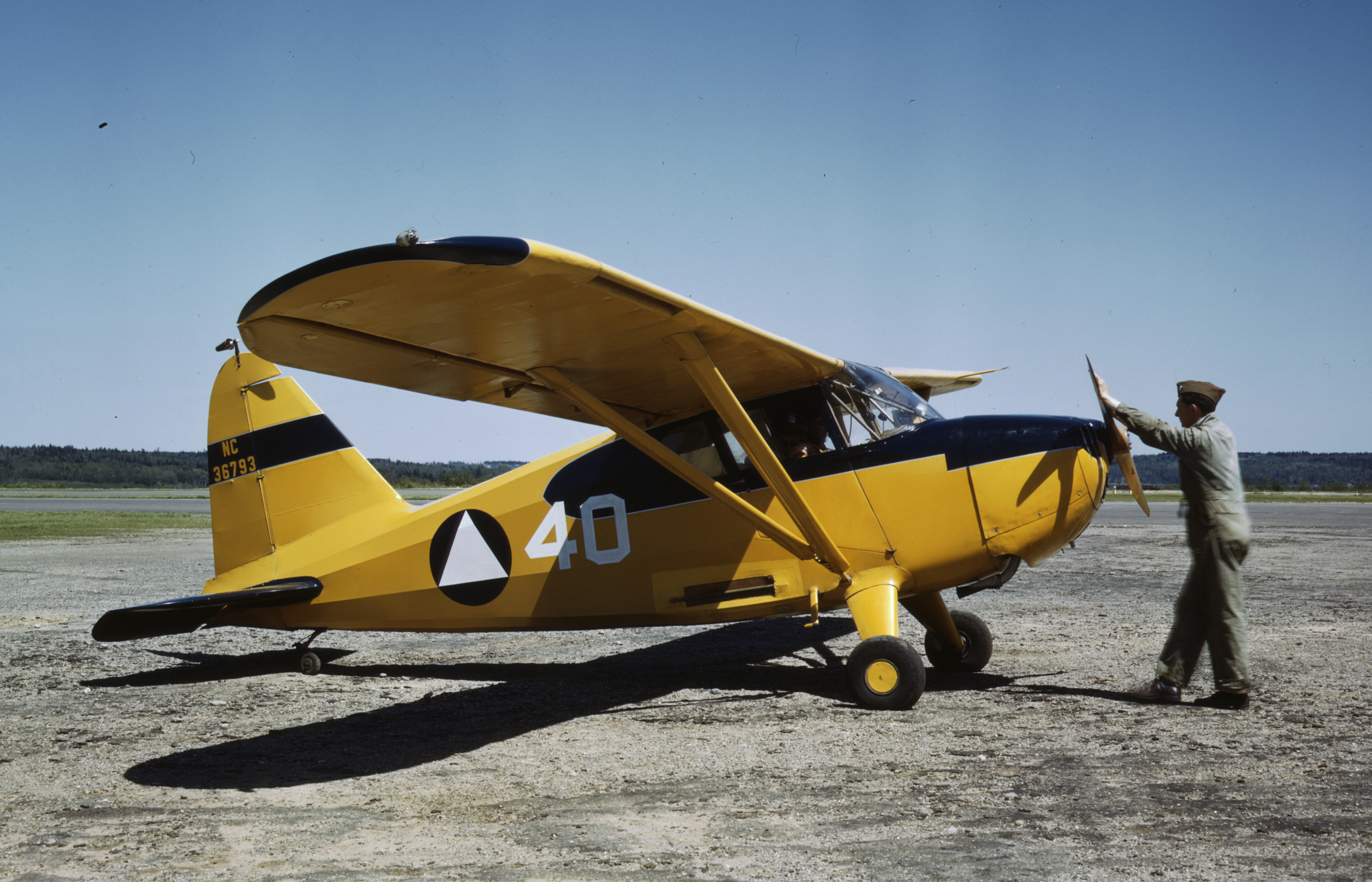 Civil Air Patrol, Coastal Patrol base #20, Bar Harbor, Maine. A Stinson 105 on the tarmac, prepped for flight. Title from FSA or OWI agency caption. Transfer from U.S. Office of War Information, 1944. Repository: Library of Congress, Prints and Photographs Division, Washington, D.C. 20540 USA Part Of: Farm Security Administration - Office of War Information Collection 12002-46 (DLC) 93845501 Persistent URL: Call Number: LC-USW36-777